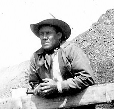 Artie Ortego ( Born Artie Ortega) CIrca 1930